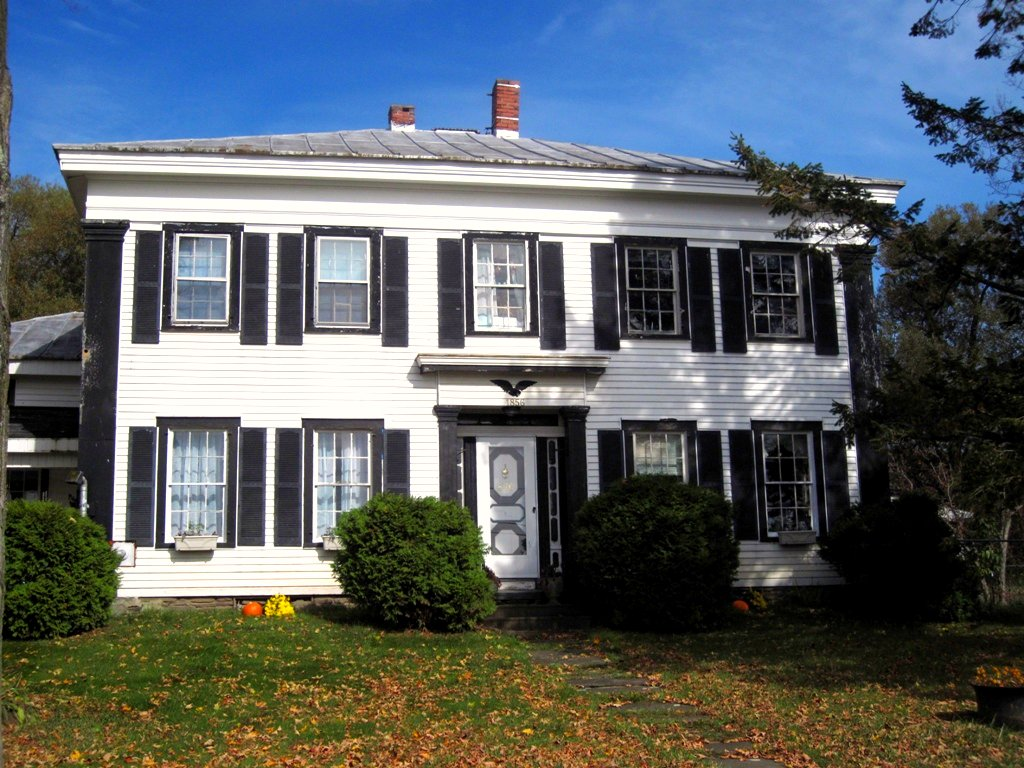 The house, built around 1860, by Alexander Delos Jones, features stacked plank construction and is an example of late Greek Revival/early Italianate style. Photo by Wendy Voelker